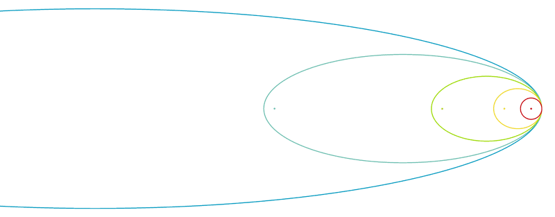 A set of ellipses with the same focal distance. One of their focus points coincide with the center of the circle. These ellipses are tangent for the circle from outside.